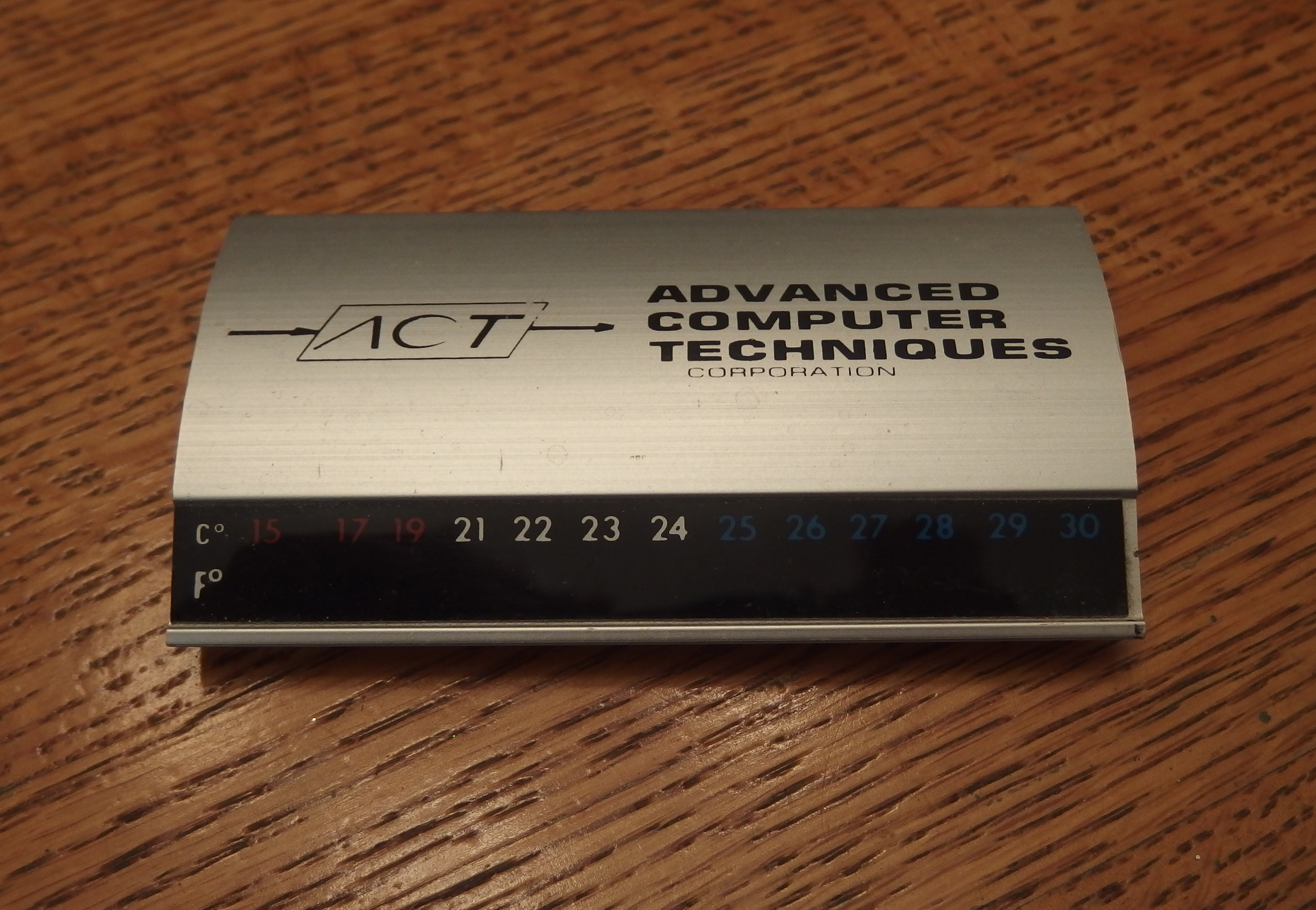 A room thermometer that doubled as a paperweight that was put out as a promotional item by the New York-based software company Advanced Computer Techniques in the 1980s.